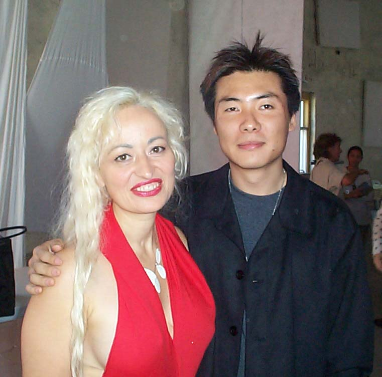 Image Specific